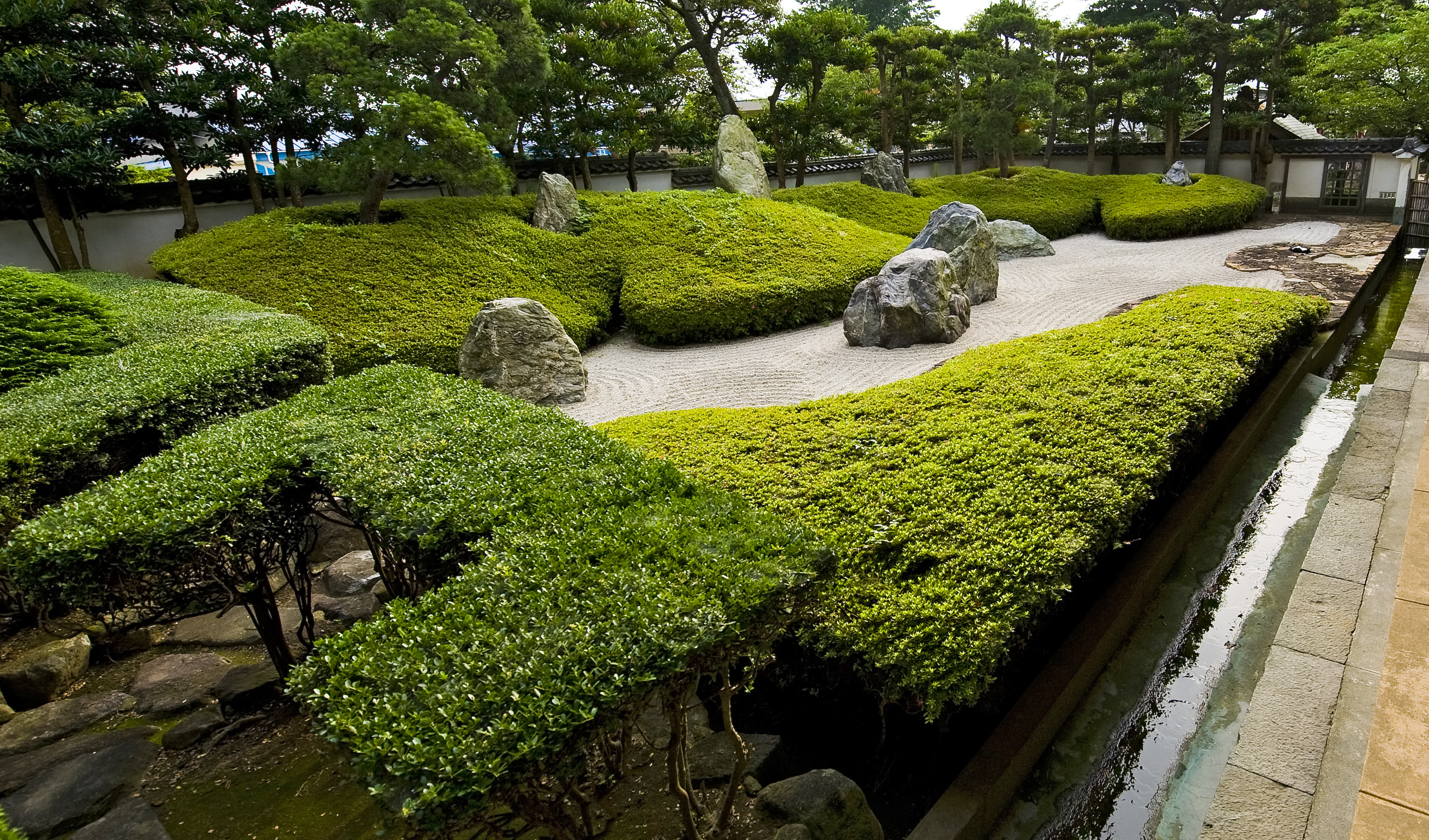 The Zen Garden at Komyoji in Kamakura